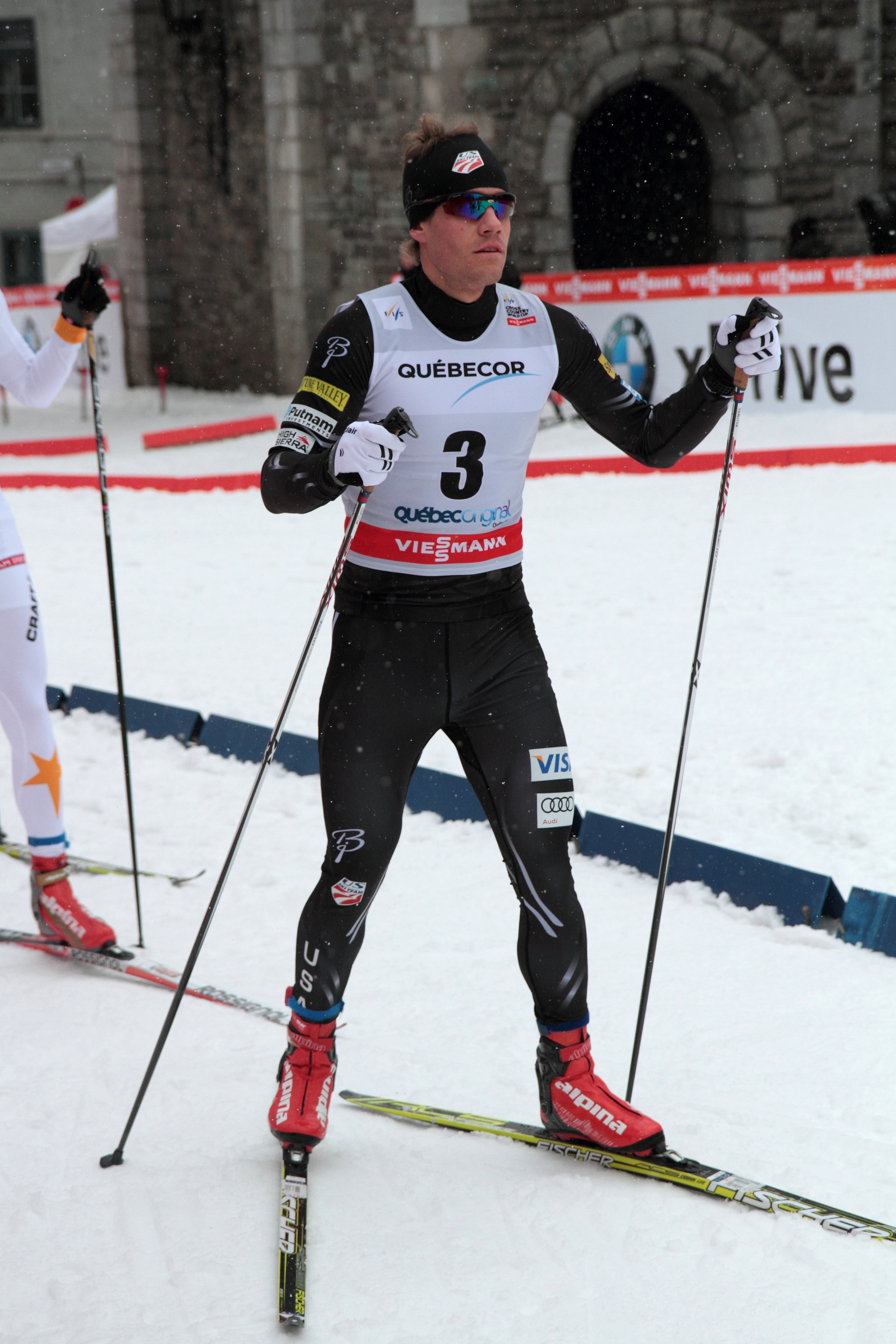 Simeon Hamilton, FIS Cross-Country World Cup 2012, Quebec, Canada.